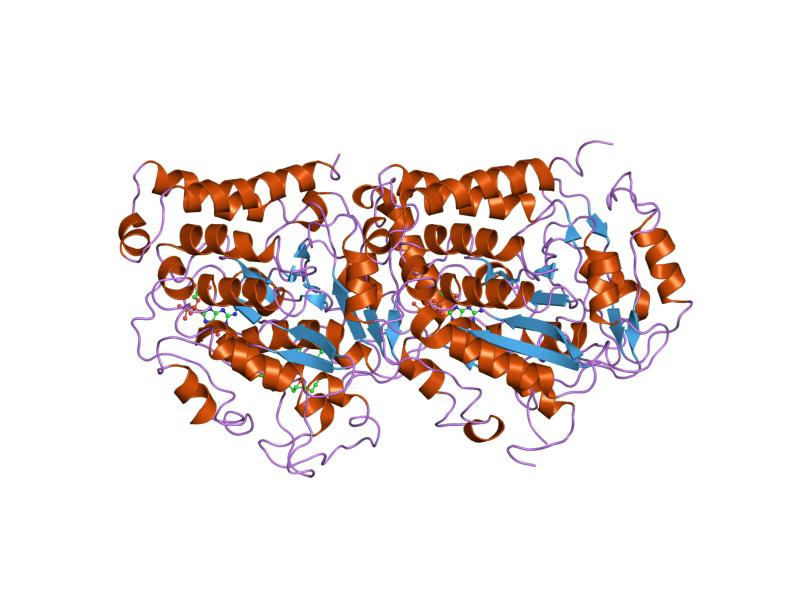 Cartoon representation of the molecular structure of protein registered with 1tvk code.